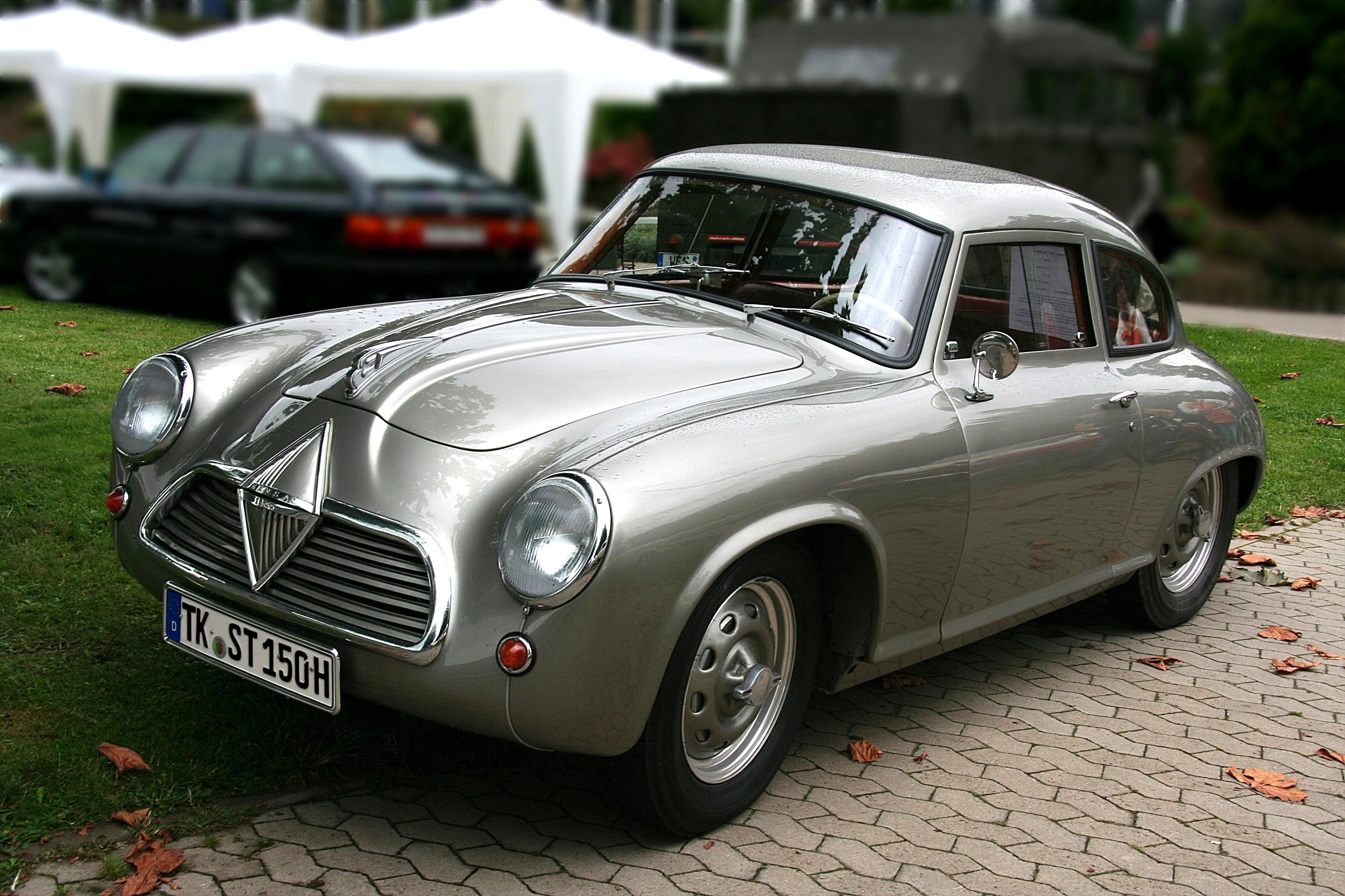 One of two prototypes of the Borgward Hansa 1500 Sportcoupé, built in 1954 and exhibited at the Geneva Motor Show. This car never entered serial production. The photo was taken at Borgward-Treffen 2007 in Andernach.